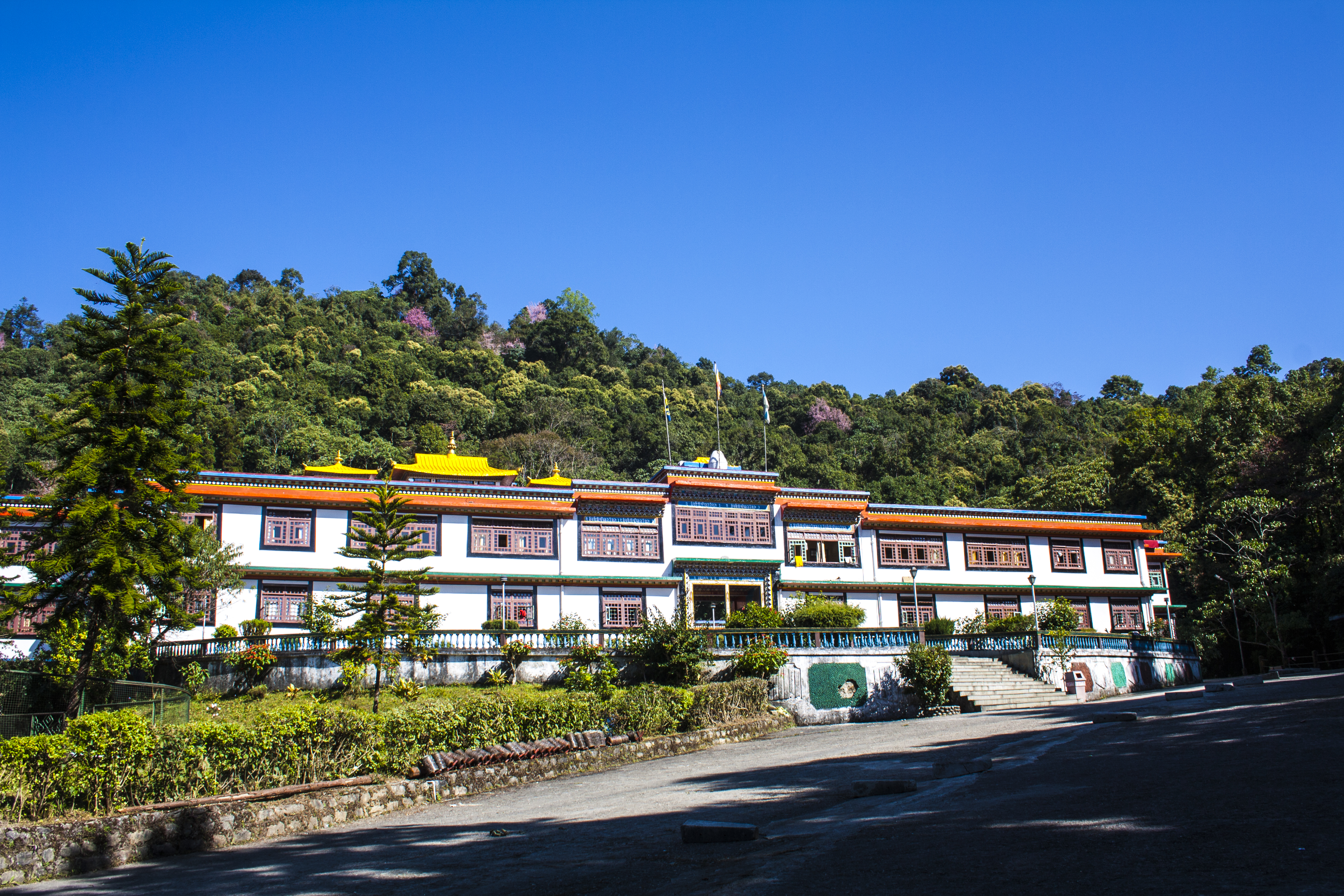 Rumtek Monastery also called the Dharmachakra Centre. Rumtek Monastery is a Tibetan Buddhist monastery. It situated near the capital Gangtok , Sikkim.